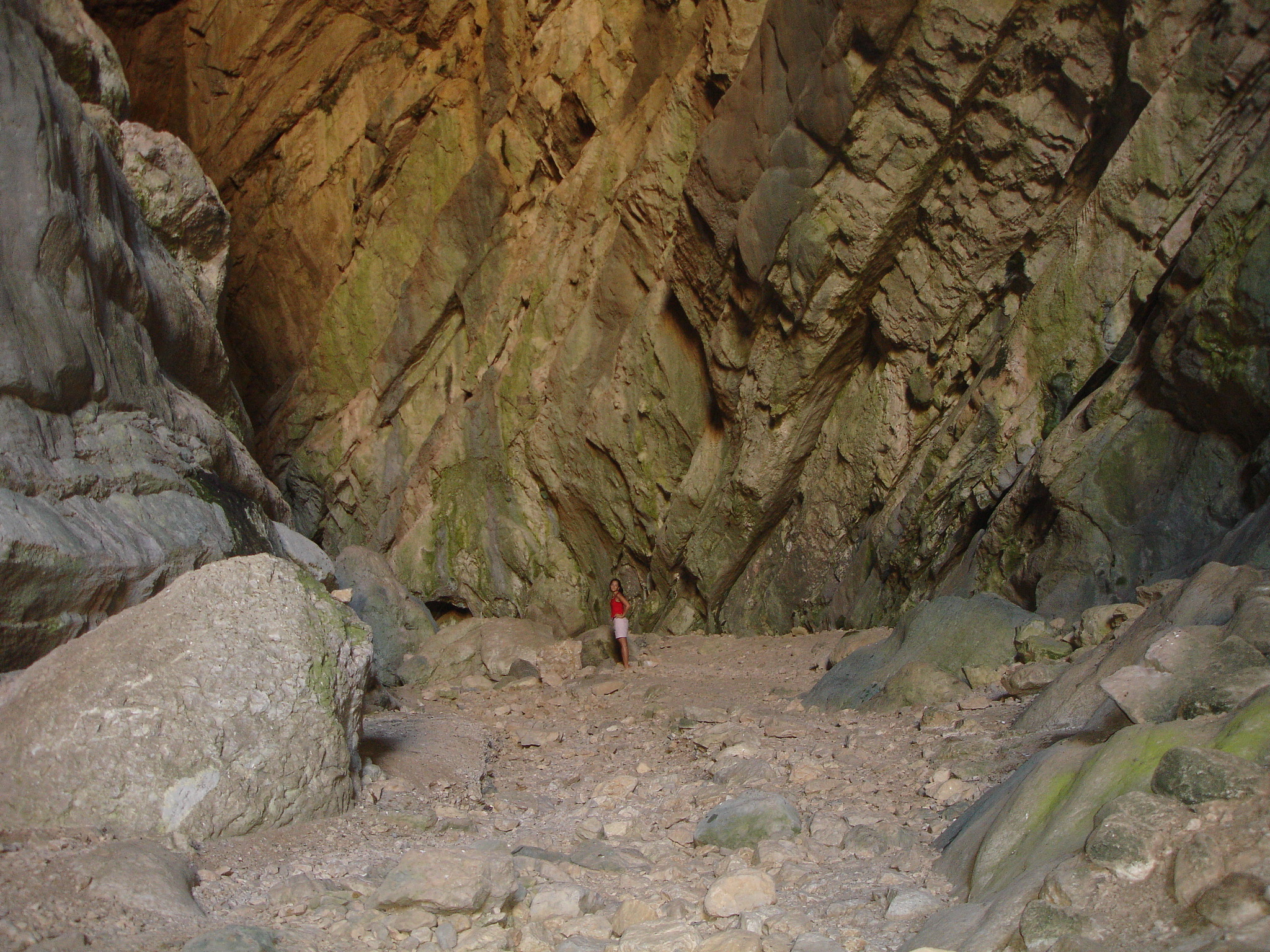 Entrance to Cueva del Gato (Cave of the Cat) without water. A tourist is there to appreciate sizes. Andalusia, Spain